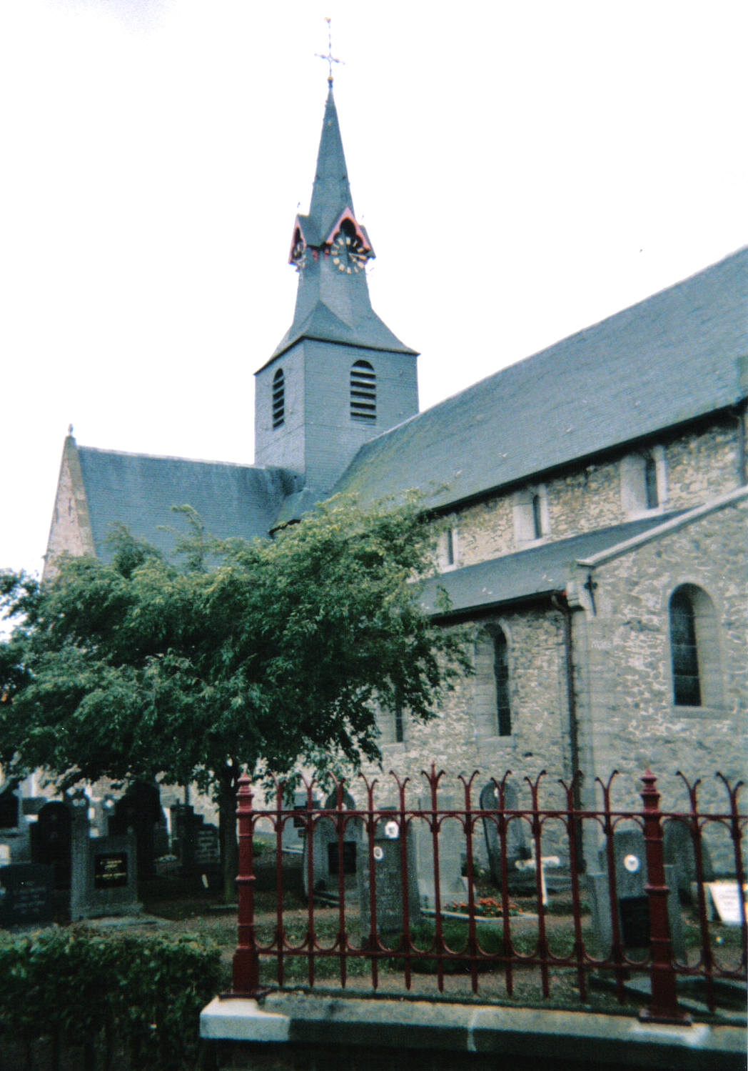 The village church of Welden, a submunicipality of Oudenaarde, Belgium.